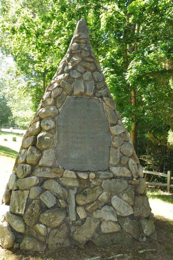 The Leffingwell Memorial at Fort Shantok, on the Mohegan reservation in Montville, Connecticut.